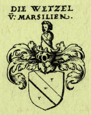 Wappen der Wetzel v. Marsilien (Straßburg)